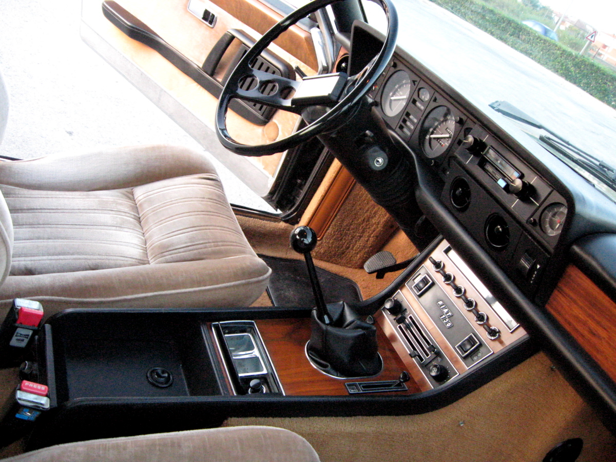 Interiors Fiat 130 coupé